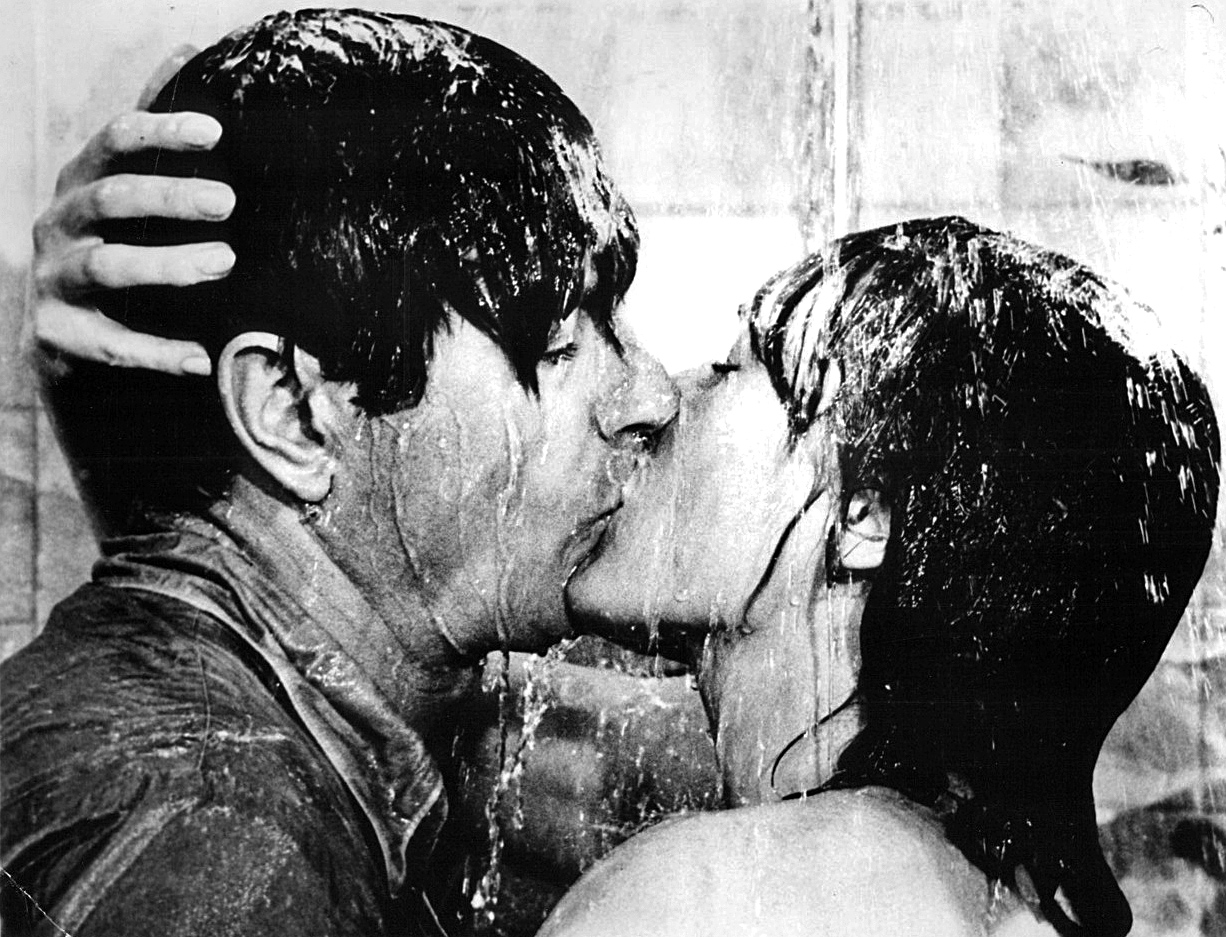 Publicity photo of Rock Hudson kissing Julie Andrews for film Darling Lilli (1970).